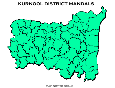 Kurnool district mandals outline map